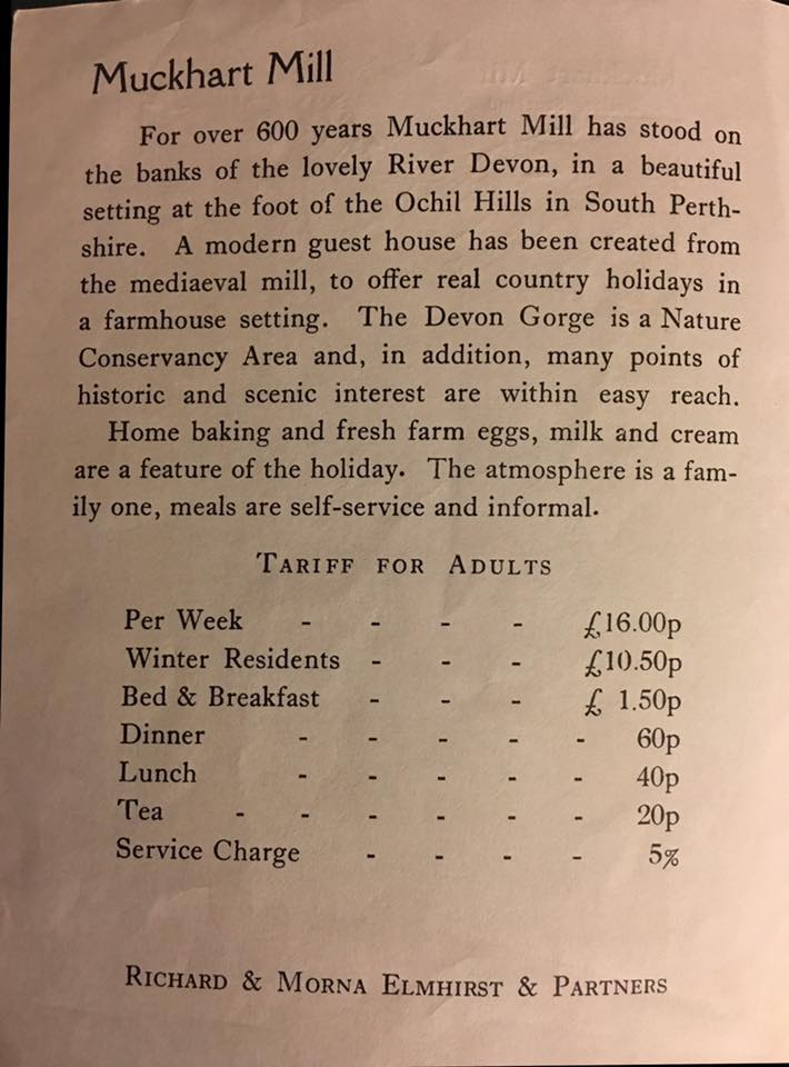 Muckhart Mill Holiday home Brochure page 2a